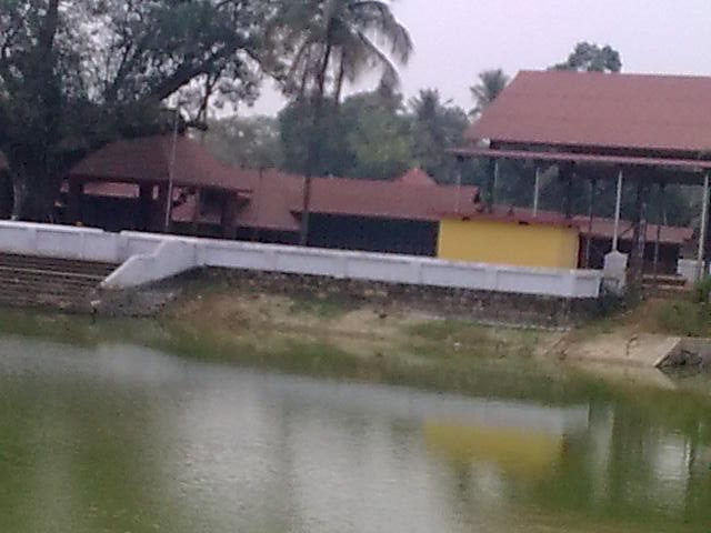 Santosh kumar,Picture is the thuravoor mahakshethram shot on my Nokia 6303 mobile cam